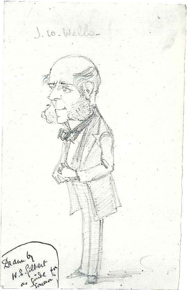 A sketch of J. W. Wells from The Sorcerer.